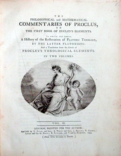 Cover of book commentaries Neoplanist Proclus